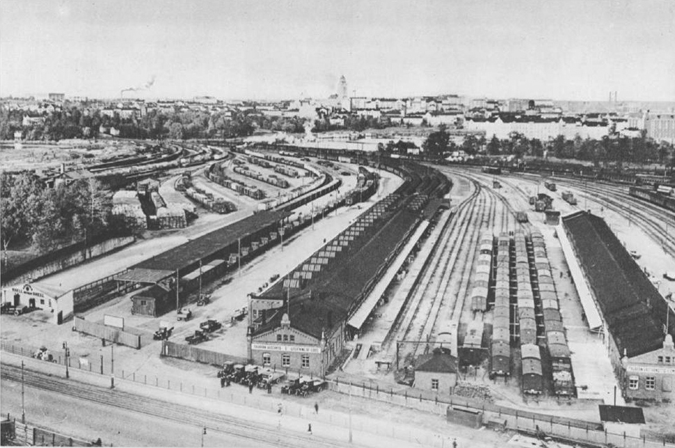 VR warehouses in 1930s. Foto taken from the roof of the parliament house.